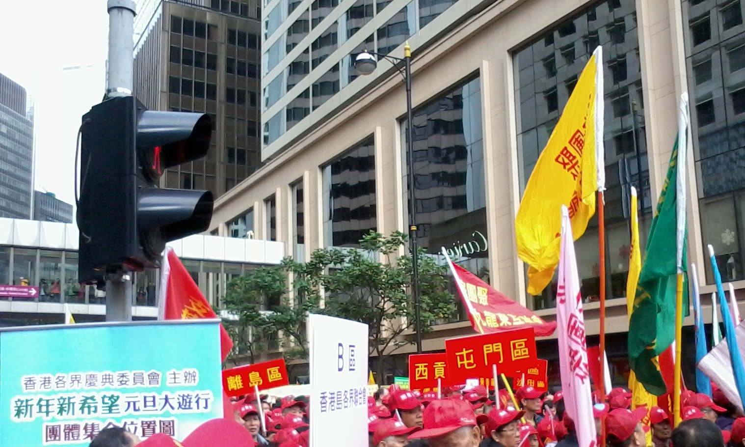 香港島香港各界慶典委員會 2013年香港元旦大巡遊 遮打道, Chater Road, Central, Hong Kong